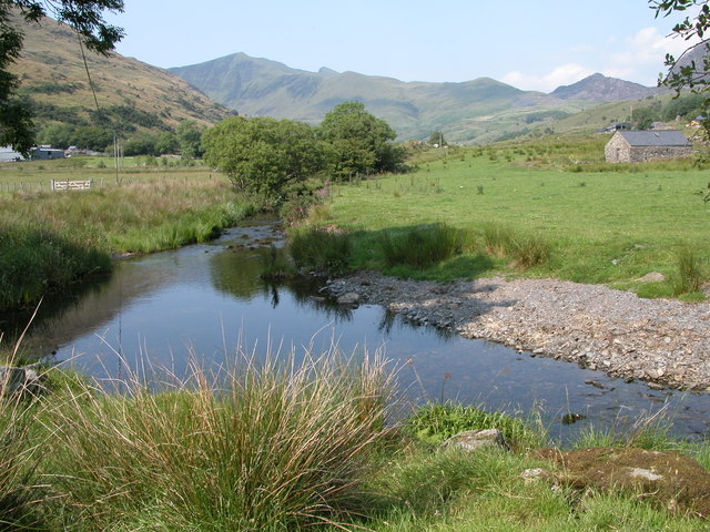 Afon Dwyfor in Cwm Pennant. Afon Dwyfor flows through the pleasant Cwm Pennant.